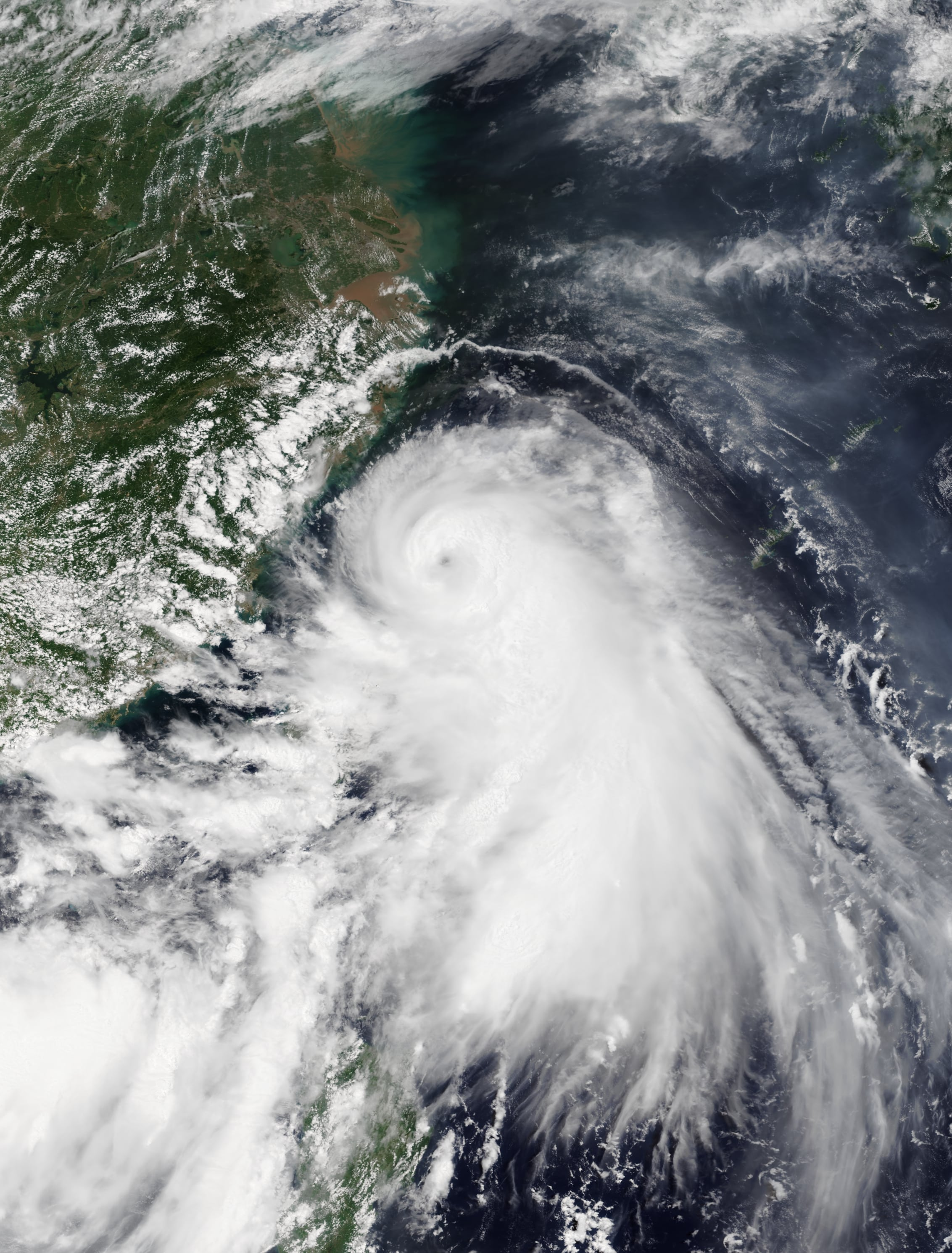 Typhoon Hagupit (03W) nearing landfall on August 4, 2020